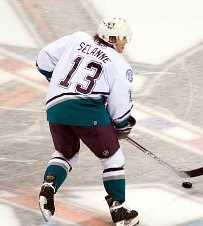 Teemu Selänne in a Anaheim Ducks game vs San Jose Sharks, April 15, 2006